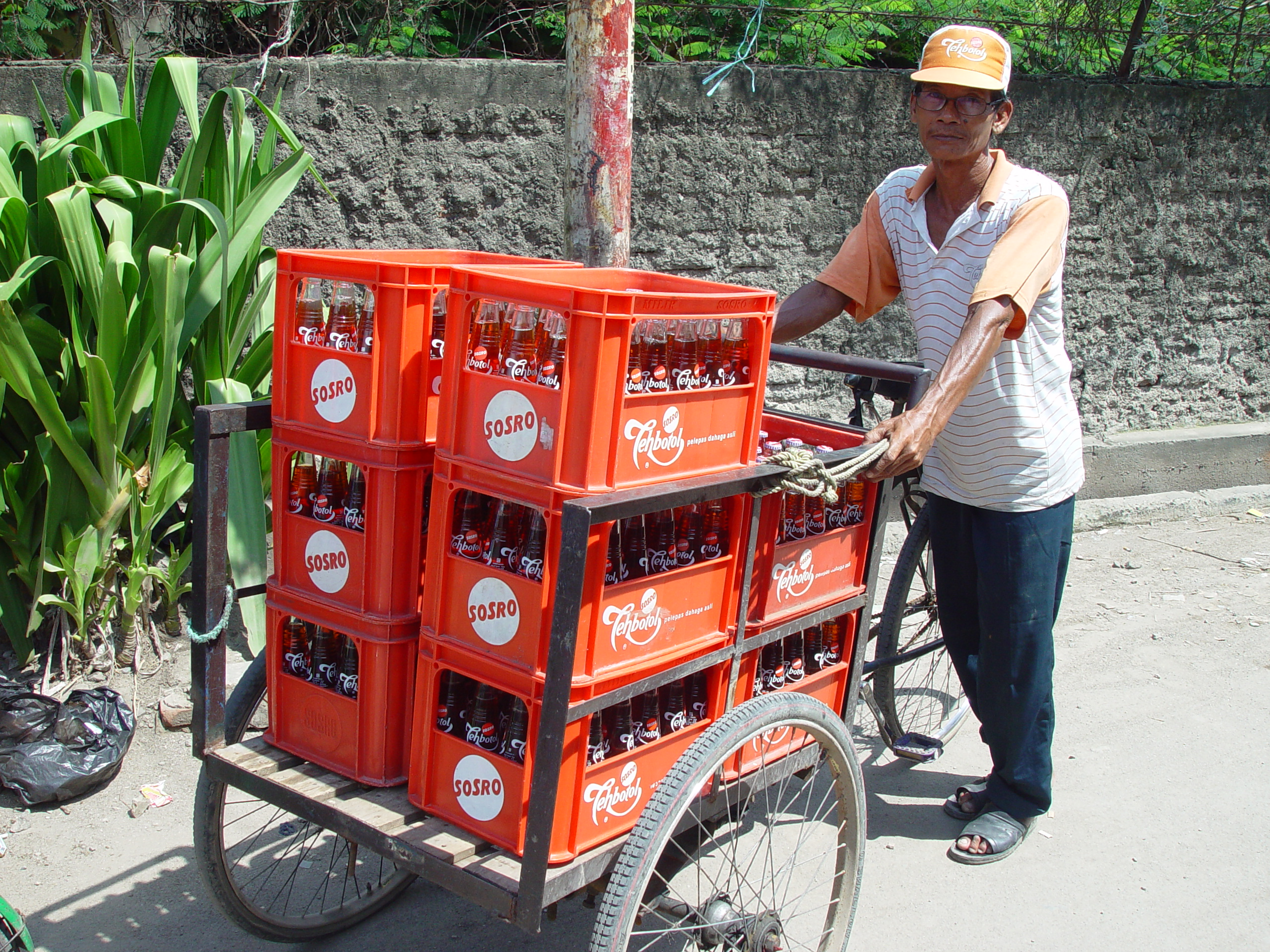 Teh Botol vending bike vehicle, Jakarta Indonesia.